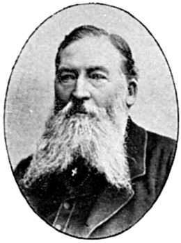 Image scanned from the book "Svenskt Porträttgalleri II" ("Swedish Portrait Gallery II") published 1899